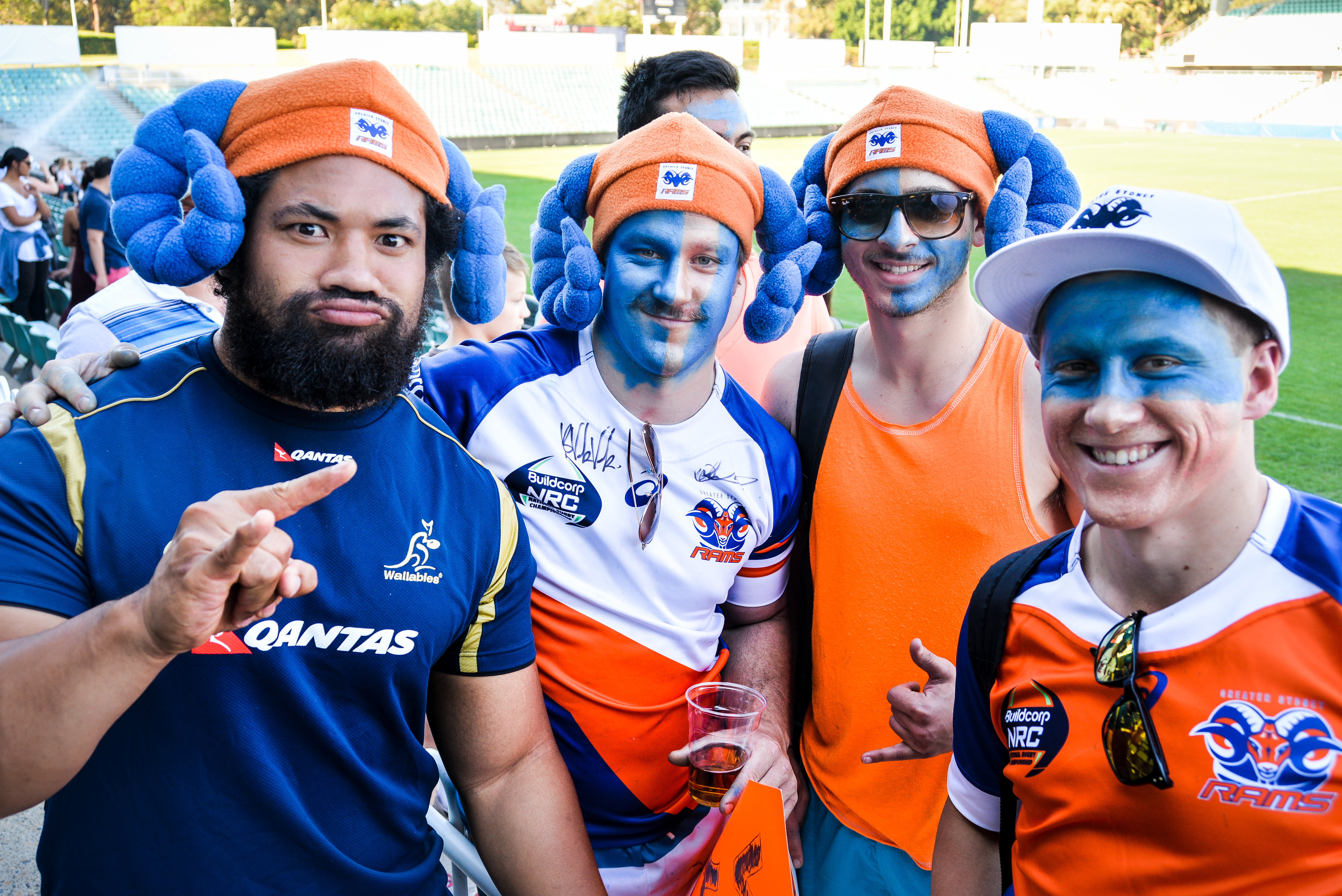 Tatafu Polota-Nau (L) joins Greater Sydney Rams Fans